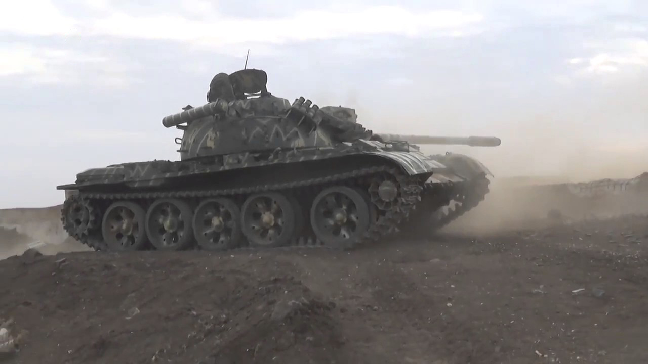 A T-55 operated by the Free Syrian Army's Southern Front in combat during ISIL's western Daraa offensive in 2017.